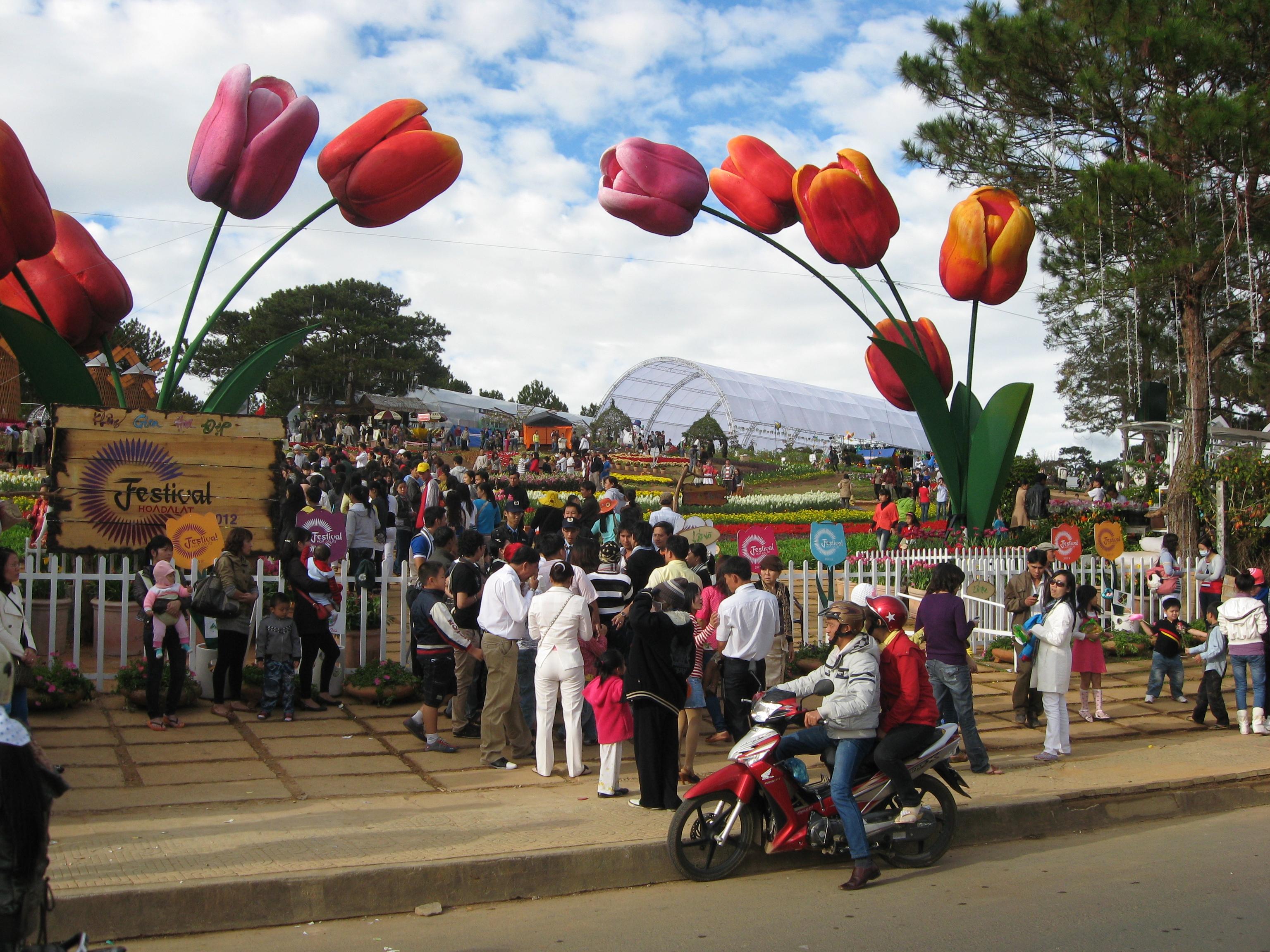 Dalat Flower Festival 2012